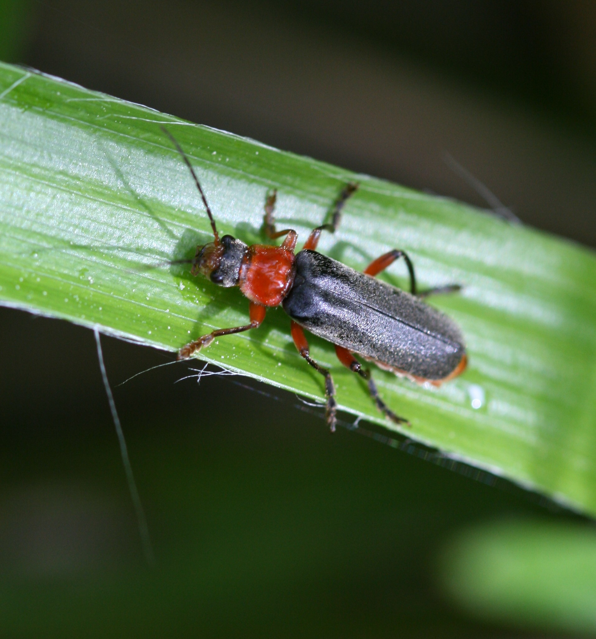 Cantharis pellucida, a Soldier Beetle.